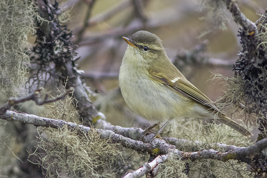 The species Greenish Warbler has been photographed during the bird photography tour of GoingWild in Zuluk and adjacent Pangolakha Wildlife Sanctuary of Sikkim, India in the month of May 2014.